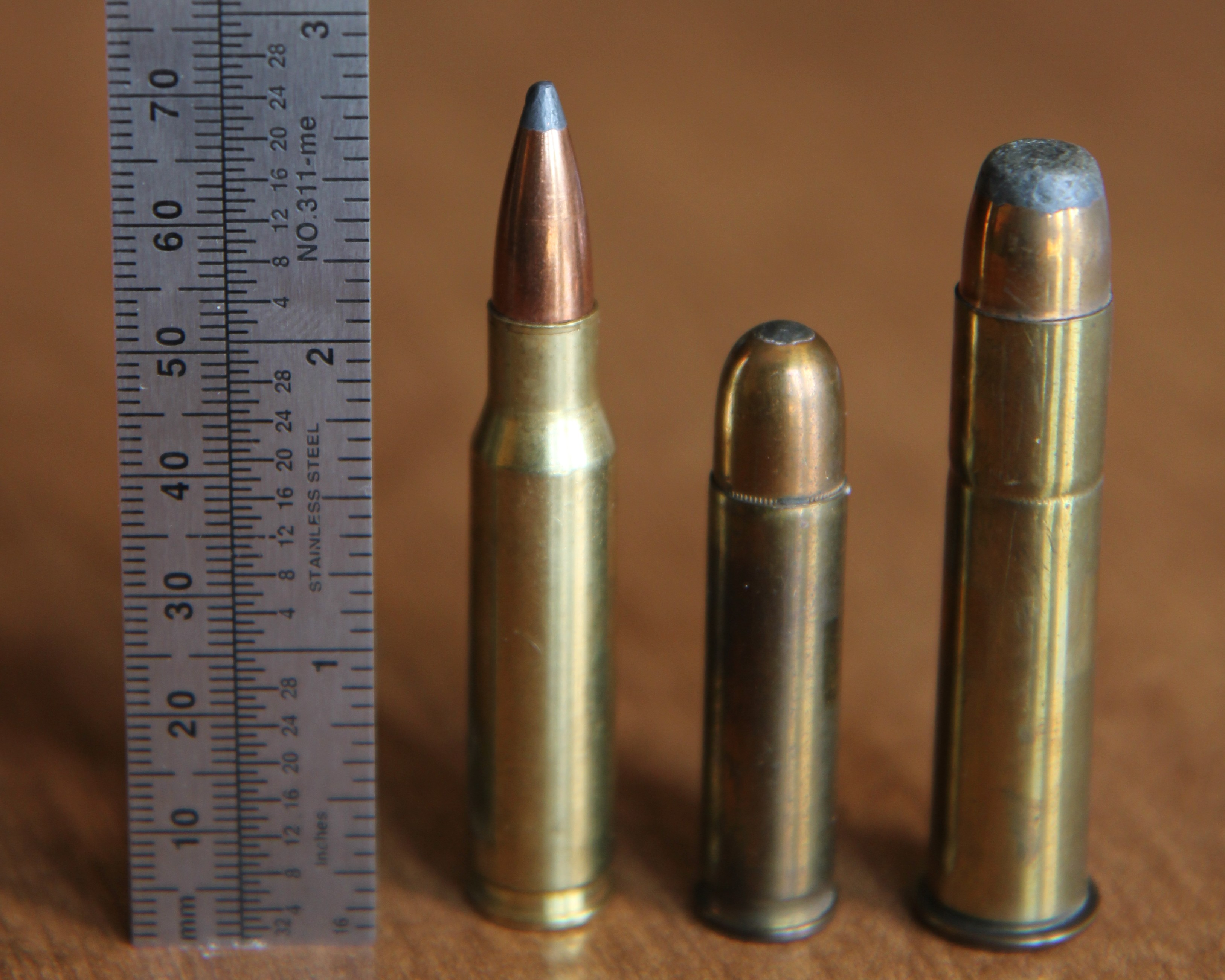 A .401 Winchester Self Loading Rifle cartridge next to a metric/imperial ruler with .45/70 and .308 Winchester cartridges for comparison.